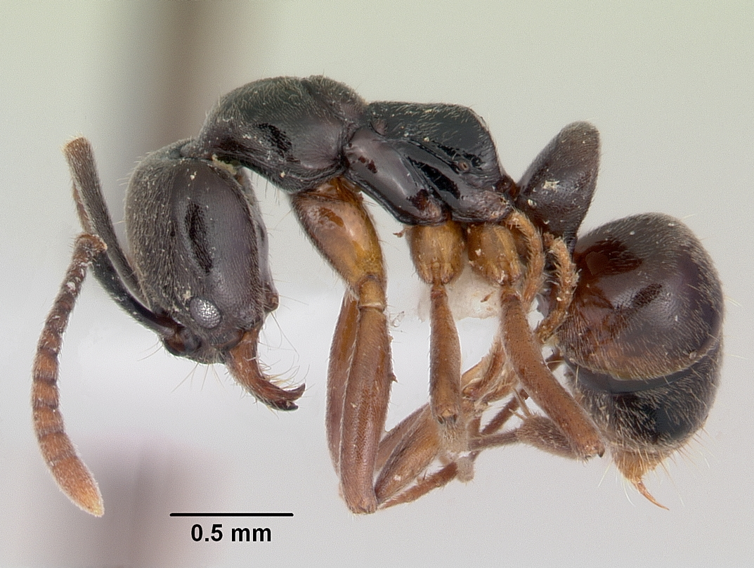 Profile view of ant Brachyponera chinensis specimen casent0104738.